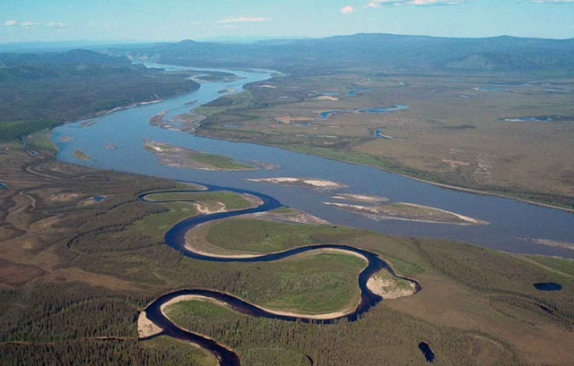 Aerial view of the Charley River at Yukon